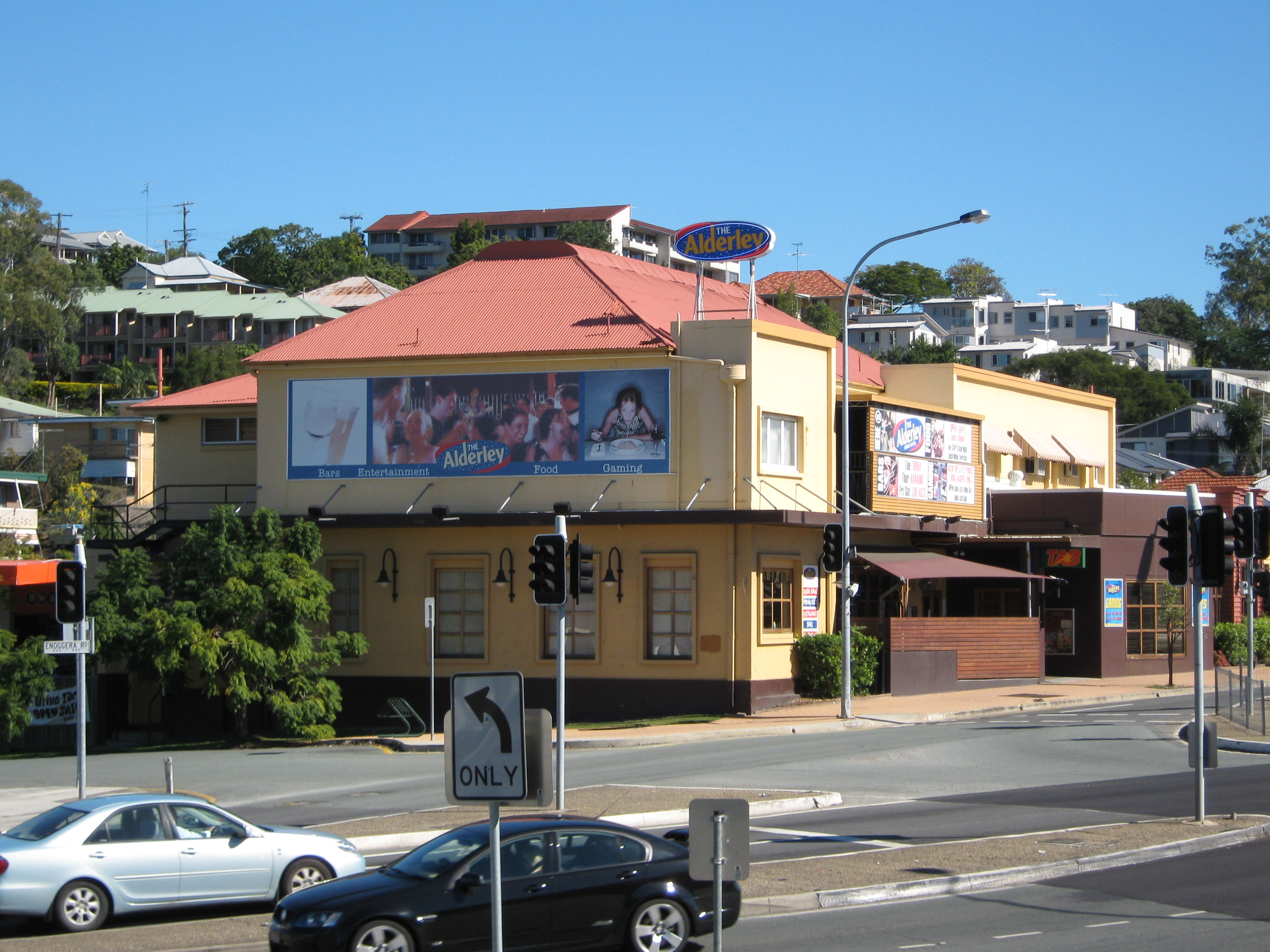 The Alderley Pub, Queensland.